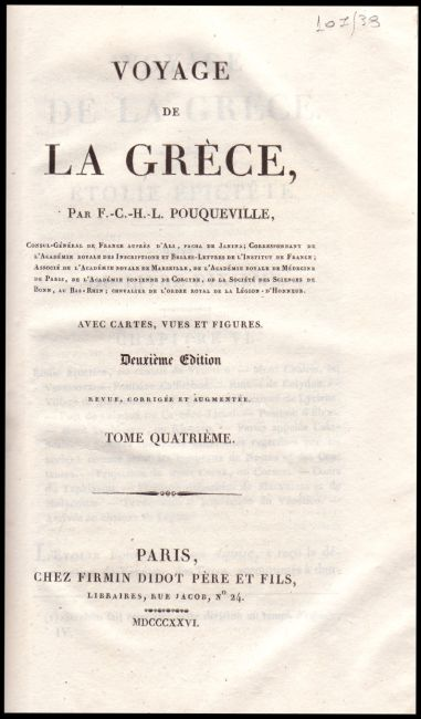 F.Pouqueville. Voyage dans la Grece. Paris, 1820.